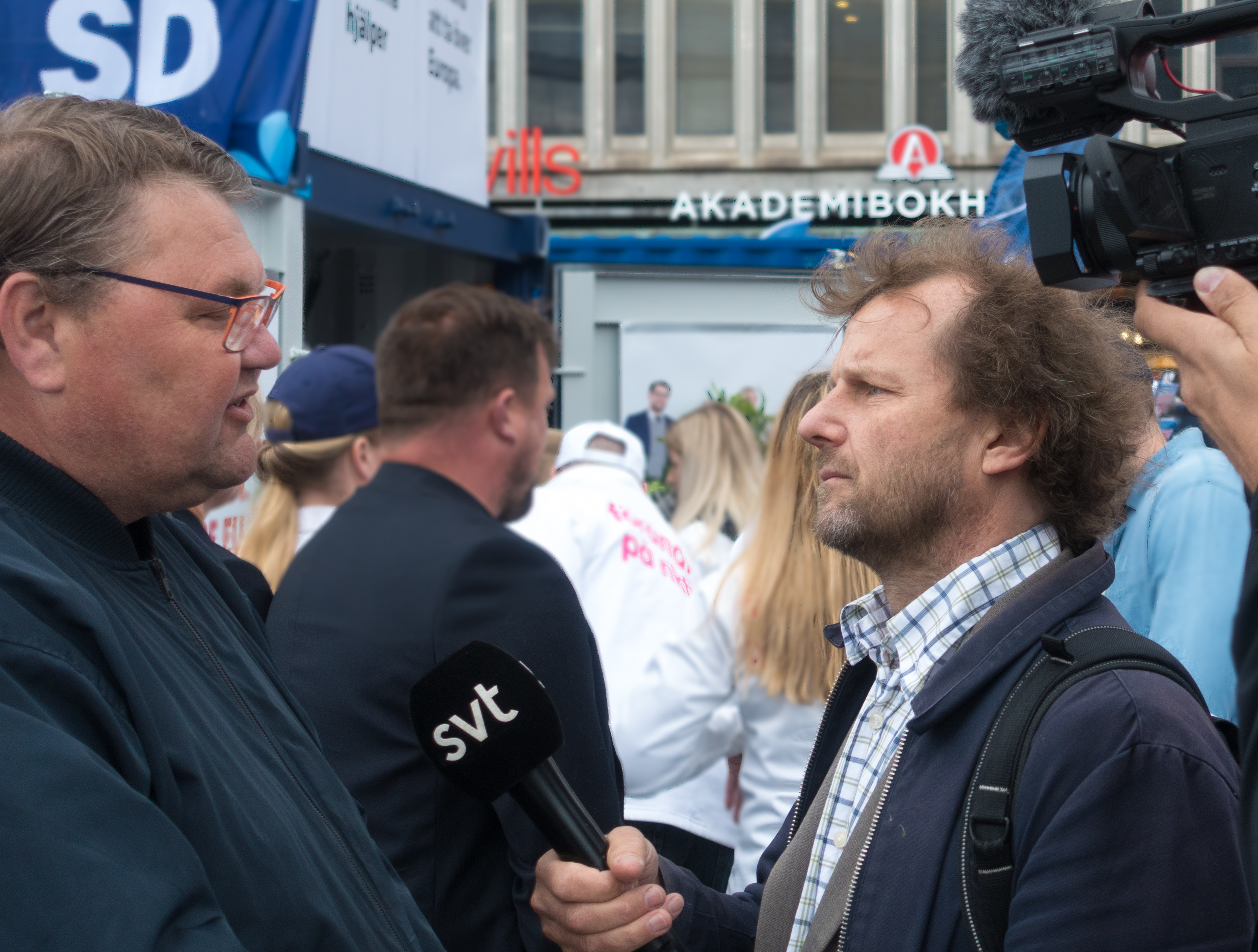 Peter Lundgren is interviewed by SVT reporter Johan Zachrisson Winberg ahead of the 2019 EU elections.